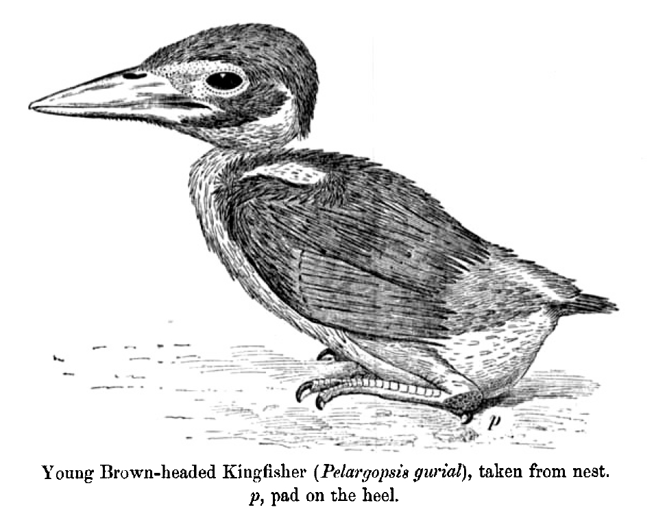 Chick of Pelargopsis capensis showing a heel pad